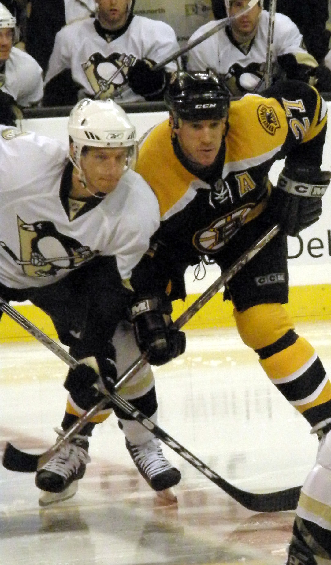 #7 Mark Eaton (D) and #27 Glen "Muzz" Murray (RW) line up in anticipation of a faceoff.